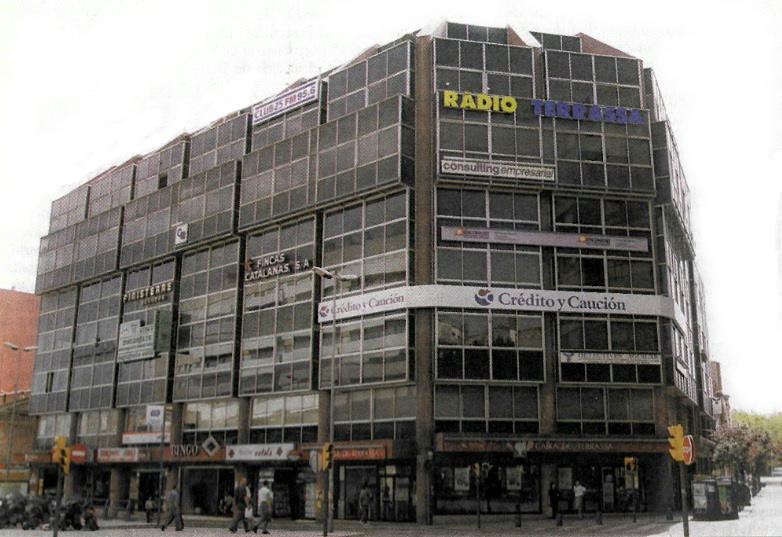 Building where the offices of Radio Terrassa and Radio Club 25 were from 1983 until its closure on January 29, 2010. Located on the sixth floor.